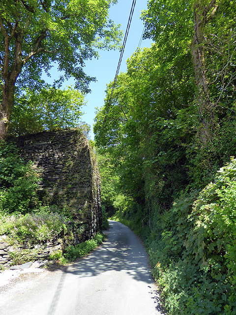 The abutments of a bridge that carried the tramway from Llwyngwern railway station to Llwyngwern quarry.